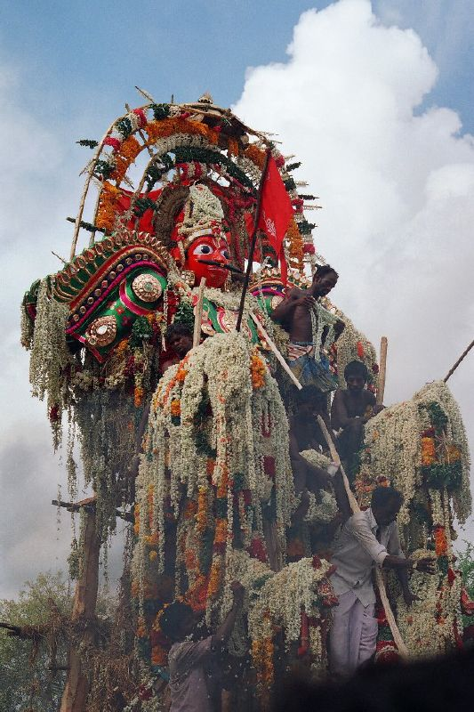 God Koothandavar (Aravan) is taken for a ride around the Kuvagam village. At the end of the procession, he is to be sacrificed to the Goddess Kali, in accordance with the myth.